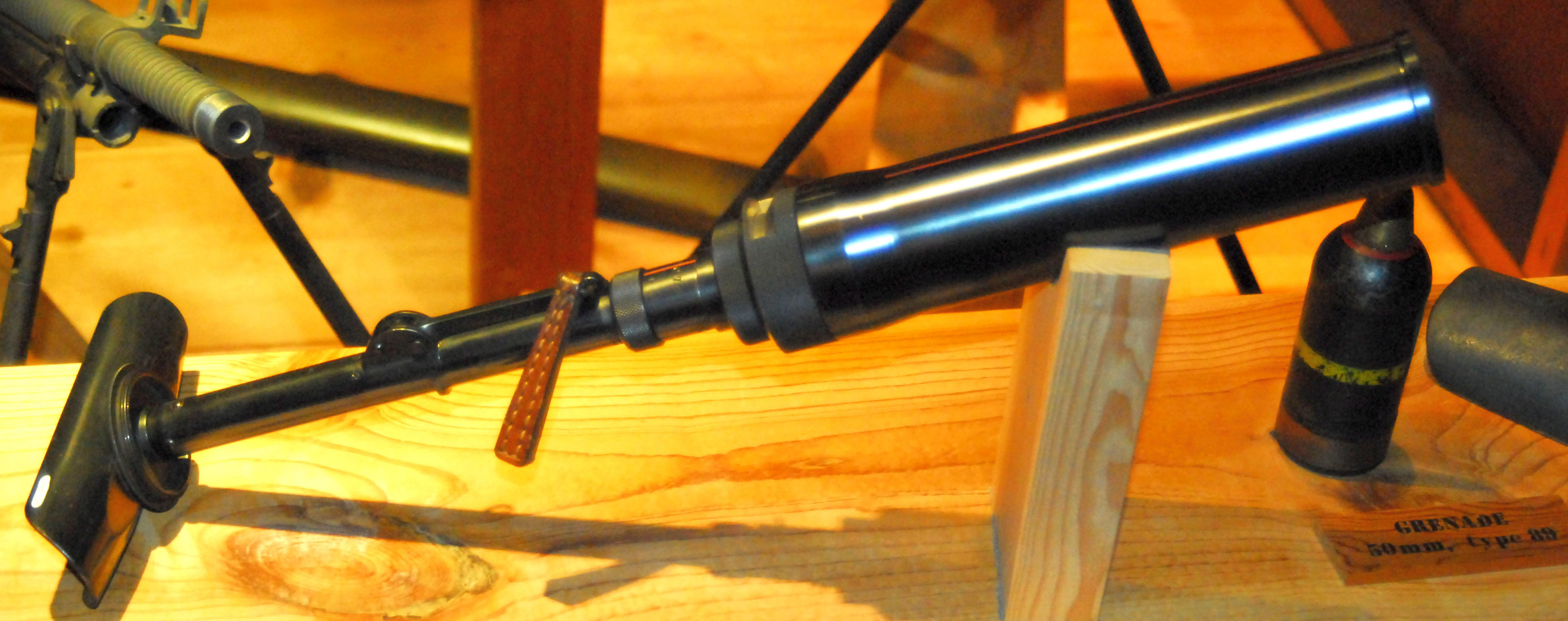 Japanese Grenade discharger Type 10, captured during World War II Related images Image:Japan Type 89 grenade.jpg Image:Japan Type 10 grenade discharger.jpg